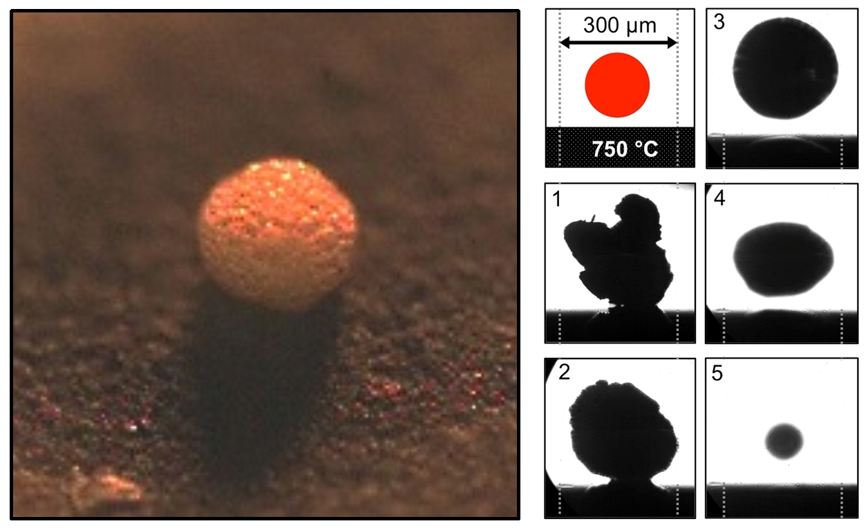 Reactive Leidenfrost Effect of Cellulose at 500 deg C. Further information available here